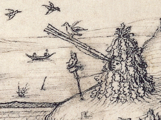 bird trapping Mittelalterliches Hausbuch von Schloss Wolfegg Fol. 17r: Luna und ihre Kinder Master of the Housebook (fl. between 1475 and 1500) Alternative namesMaster of the House-Book, Master of the Amsterdam Cabinet, Master of 1480DescriptionGerman painter, draughtsman and engraverDate of birth/death14501500Work periodbetween 1475 and 1500Work locationMiddle Rhine, Heidelberg (?), Mainz (?)Authority control : Q460300 VIAF: 79397502 ULAN: 500002780 WGA: MASTER of the Housebook GND: 118546961 RKD: 115714